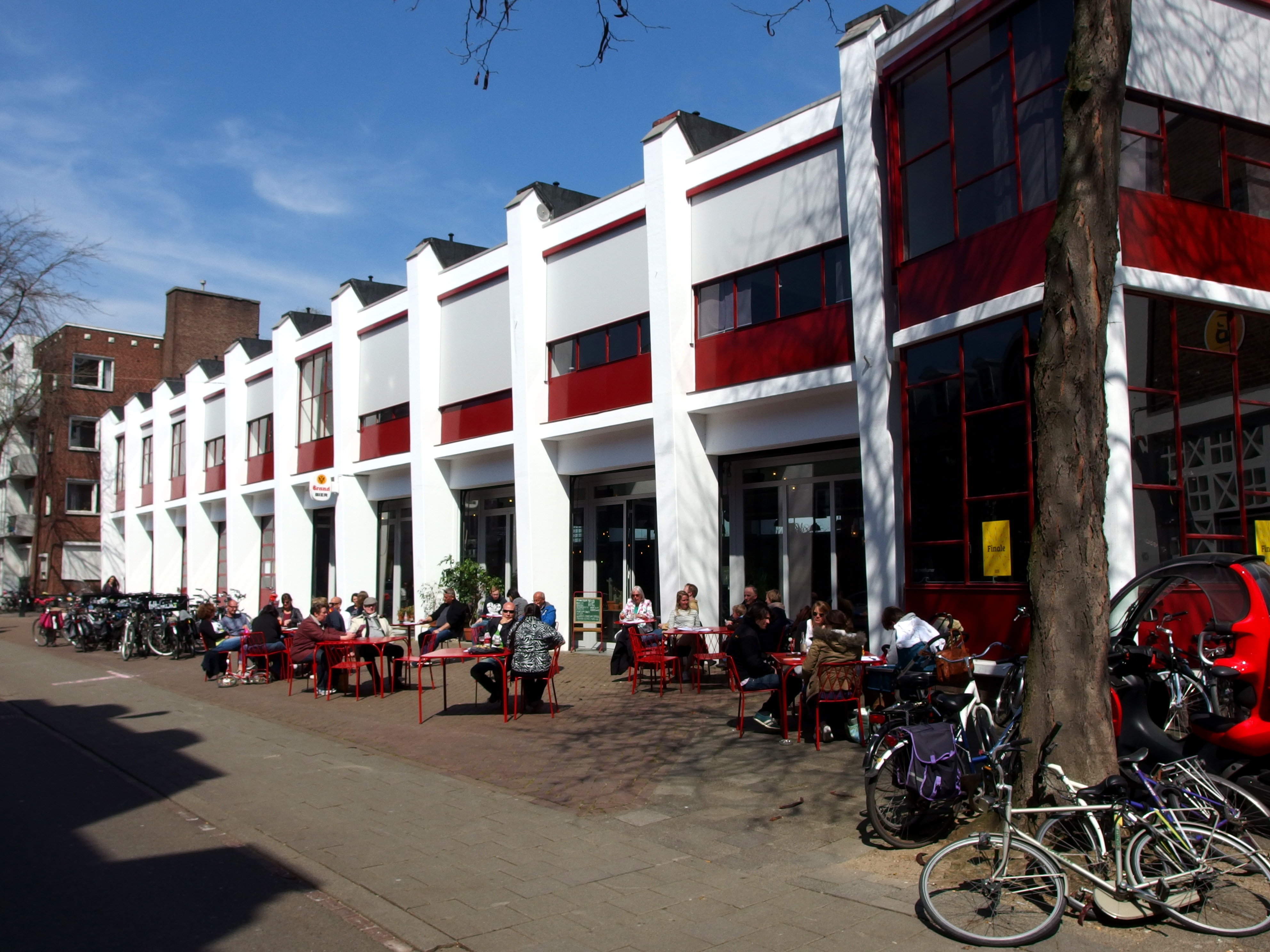 20150419 Maastricht; former fire station at Capucijnenstraat.